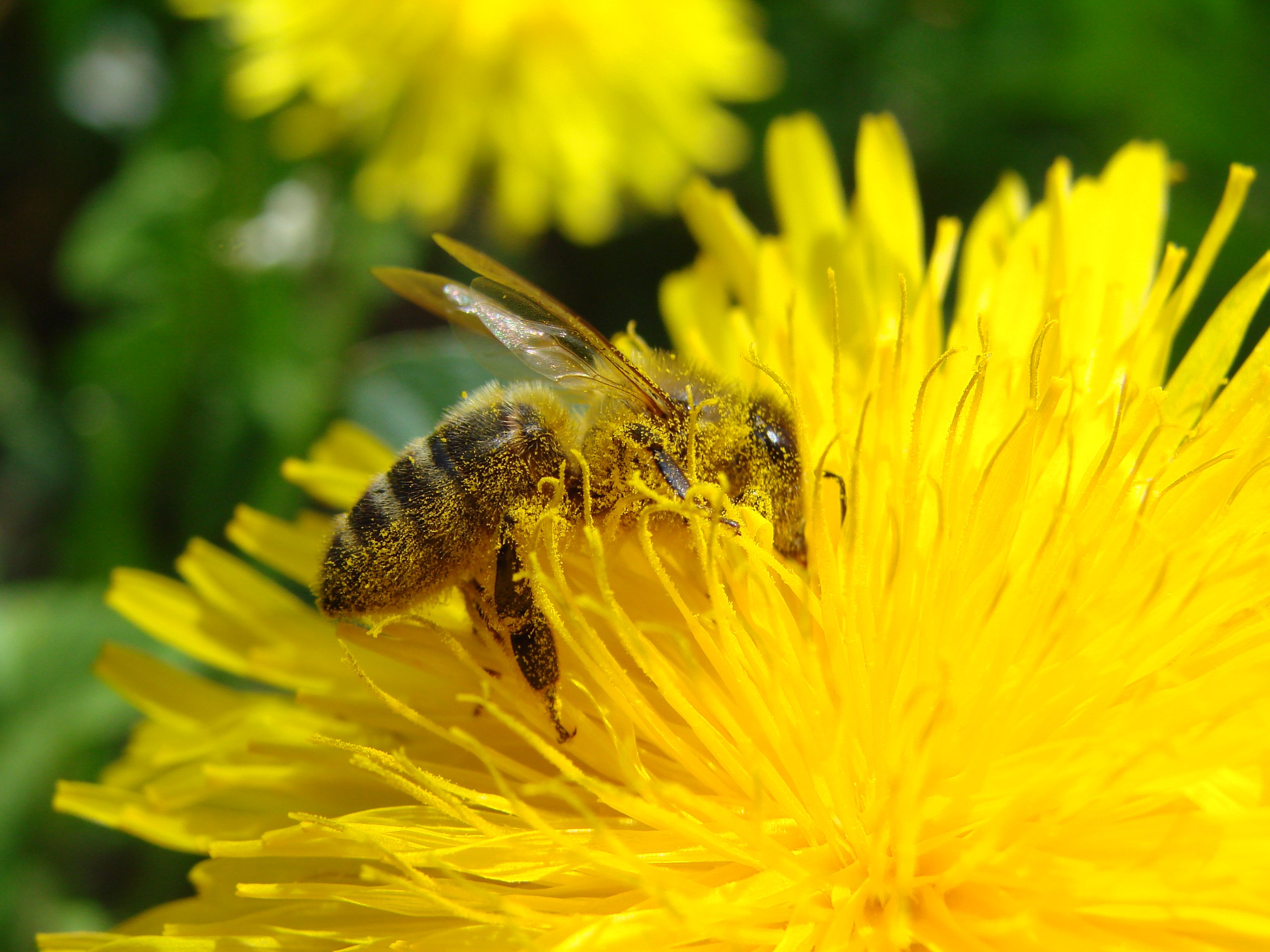 Pollination of Dandelion by a bee - it can seen the polen carryed by the bee on its body